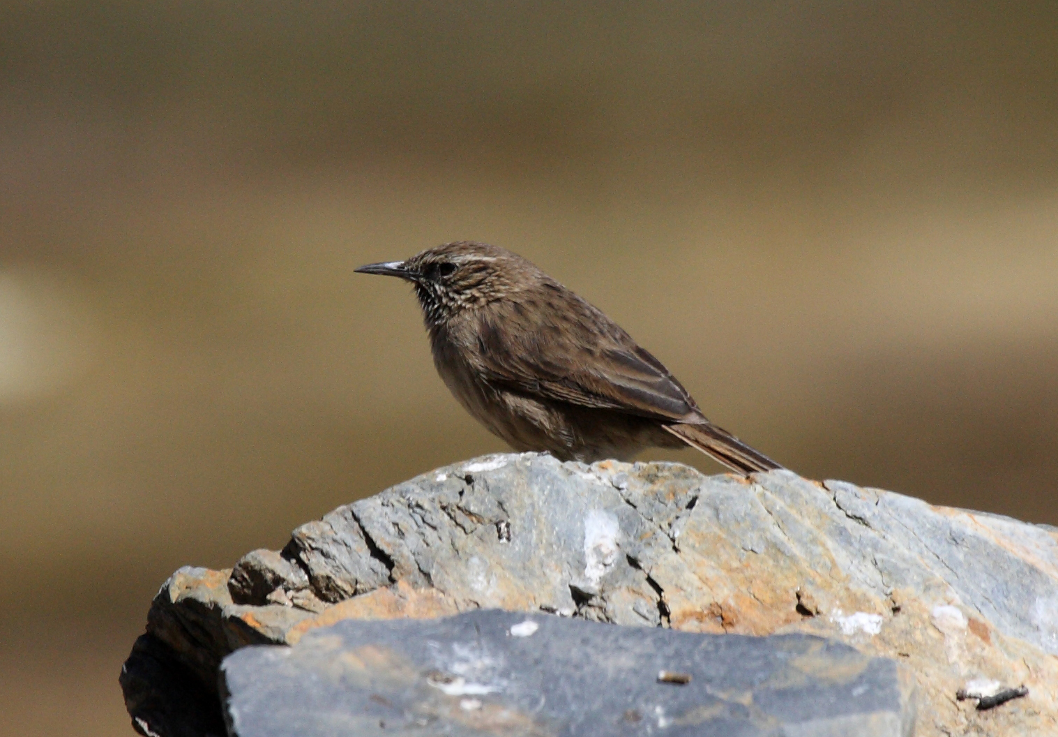 Streak-throated Canastero Asthenes humilis. Peru.